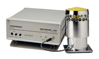 The Distromet disdrometer (model RD-80) measures the character and amount of liquid precipitation and is located next to the tipping bucket rain gauge. The main purpose of the disdrometer is to measure drop size distribution, which it captures over 20 size classes from 0.3mm to 5.4mm, and to determine rain rate. Disdrometer results can also be used to infer several properties including drop number density, radar reflectivity, liquid water content, and energy flux. Rain that falls on the disdrometer sensor moves a plunger on a vertical axis. The disdrometer transforms the plunger motion into electrical impulses whose strength is proportional to drop diameter. Data are collected once a minute.